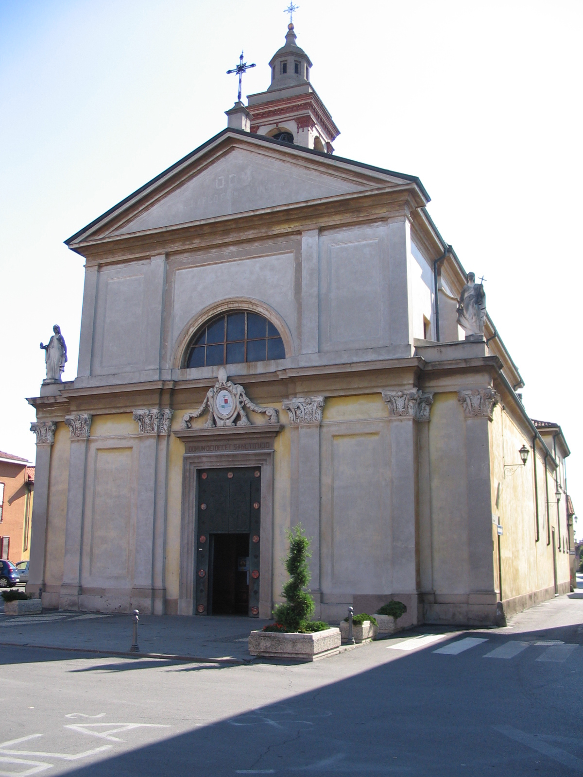 Ciserano, Bergamo, Lombardy, Italy - parish church.